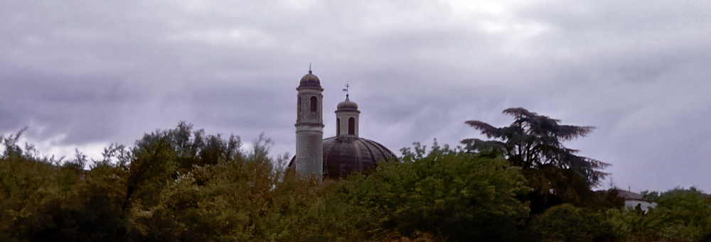 Sassari - Church of St. Mary of Bethlehem - Dome and bell tower